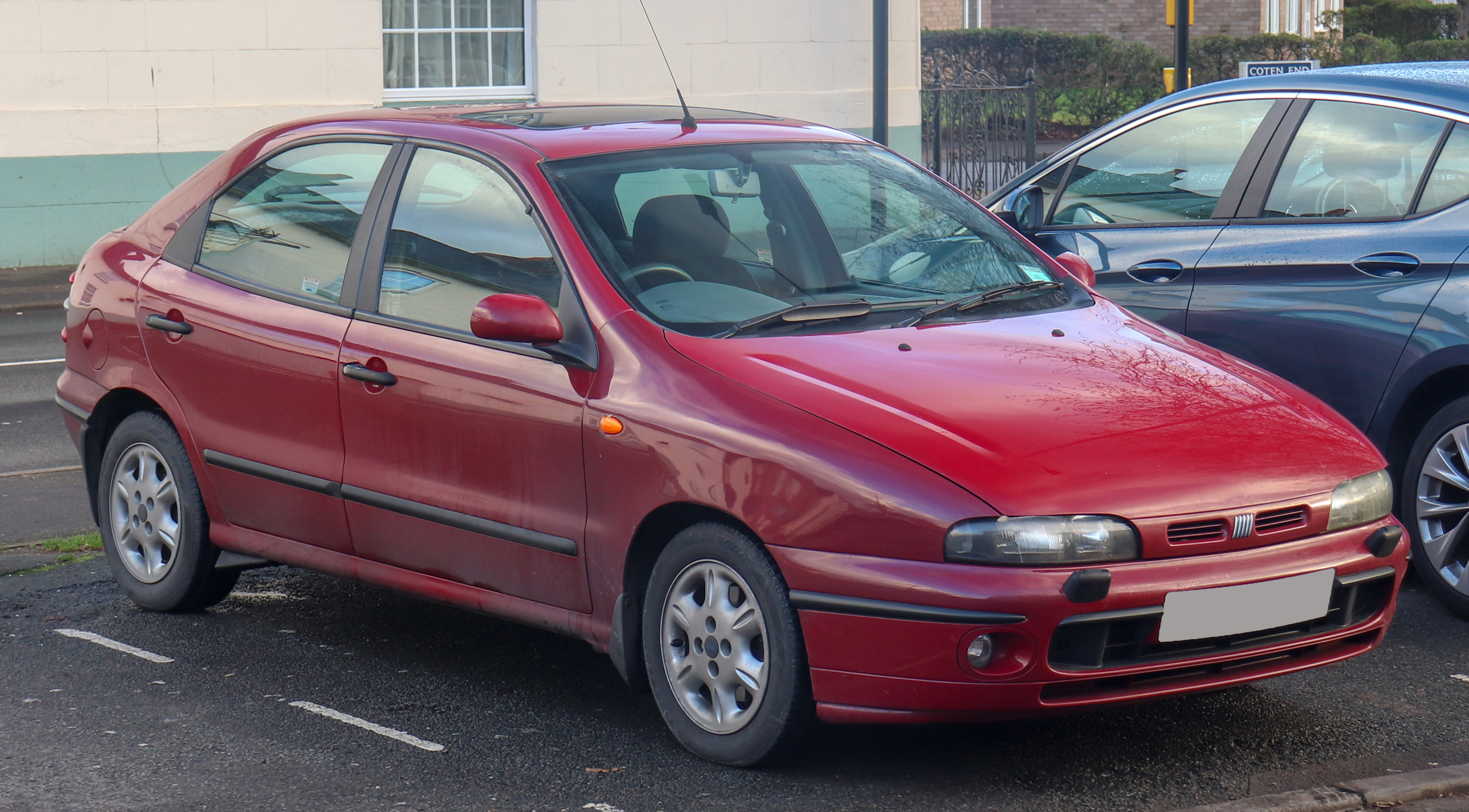 1997 Fiat Brava ELX 1.8 Taken in Warwick